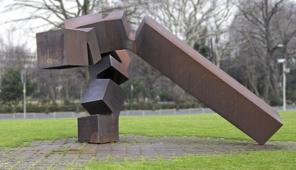 Eduardo Chillida: Monumento, Sculpture, 1971 (Thyssen Düsseldorf)